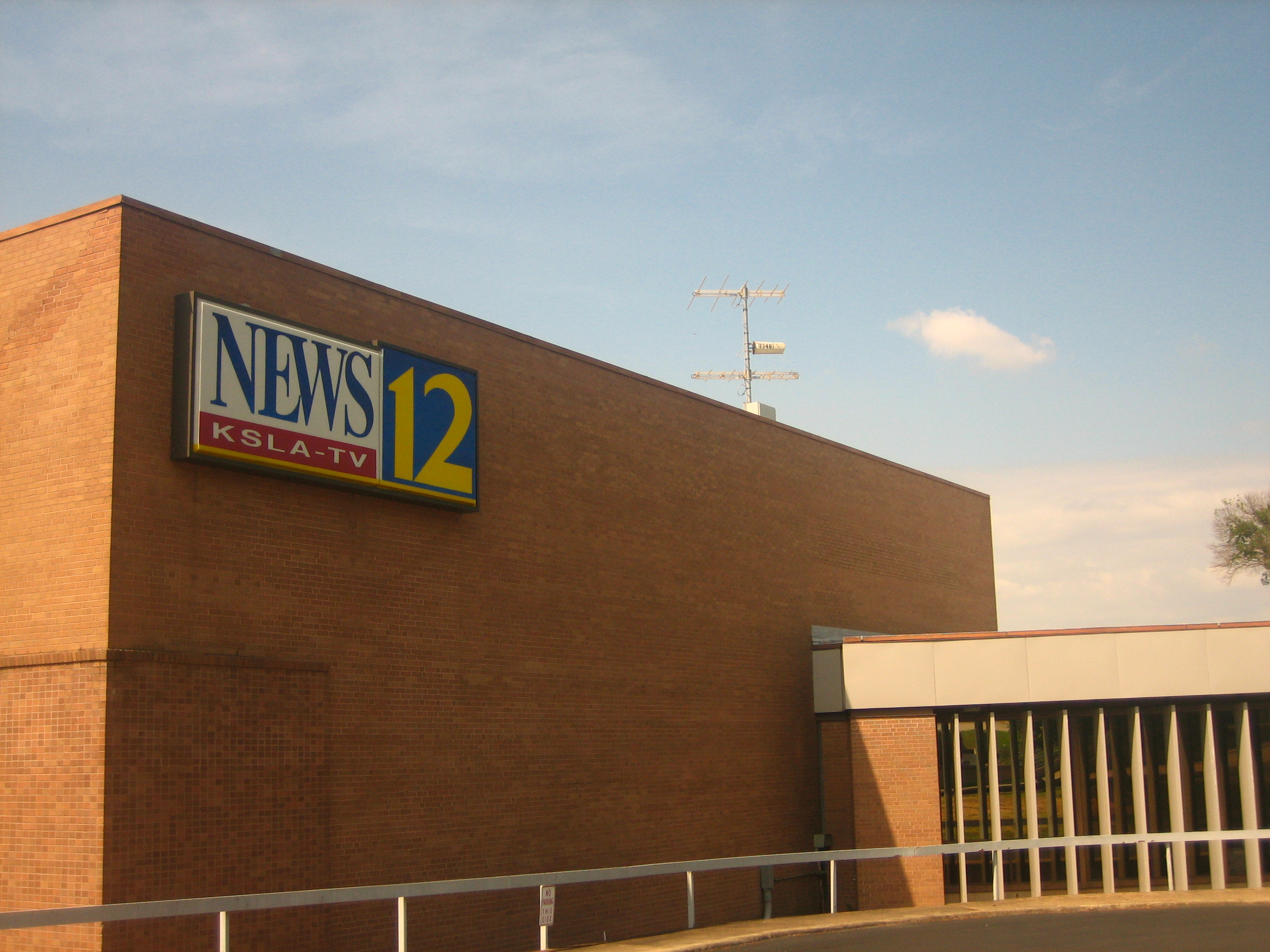 I took photo on Aug. 9, 2008.Billy Hathorn